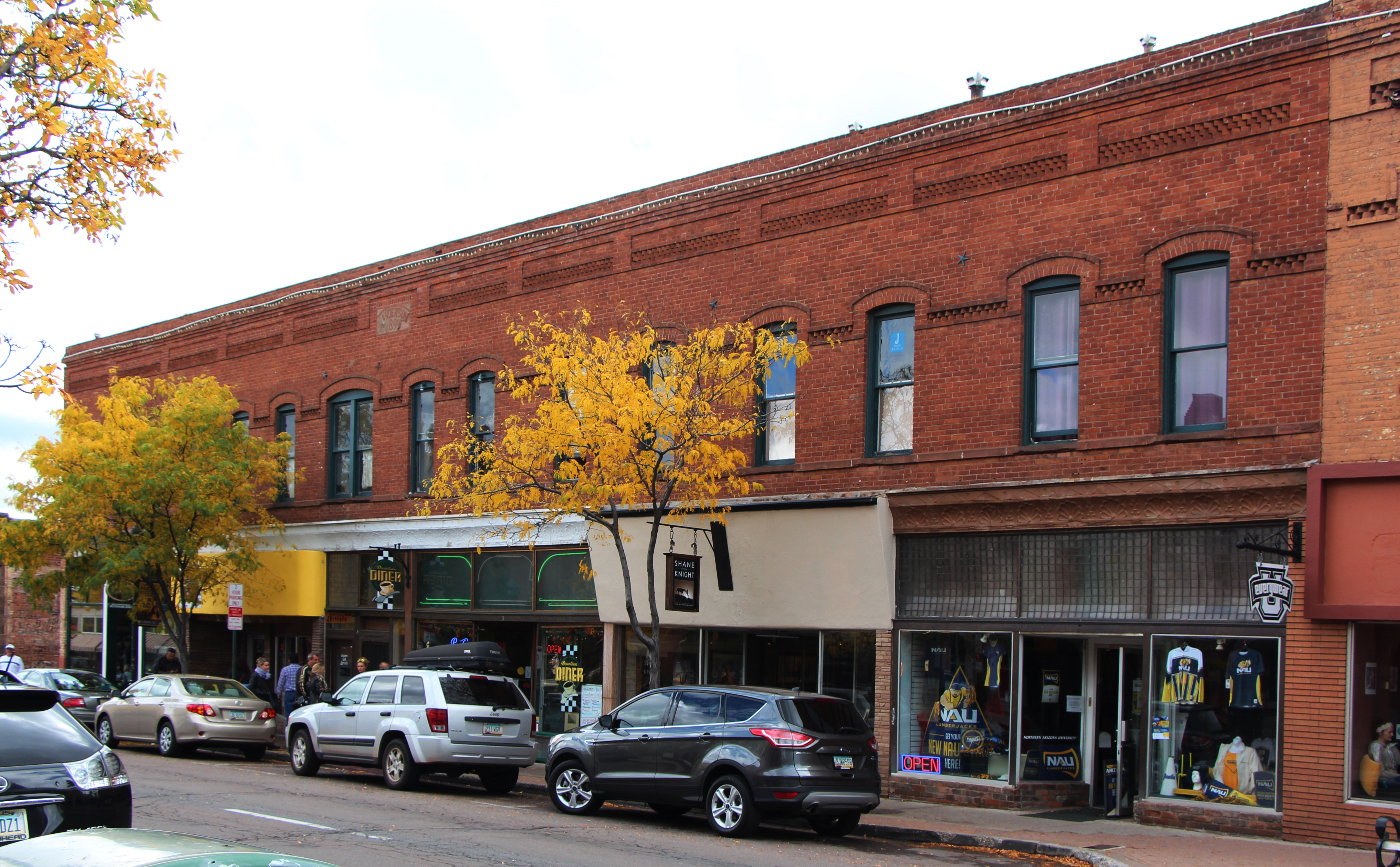 Pollock Building, series of shops at 5 E Aspen Ave, Flagstaff, AZ